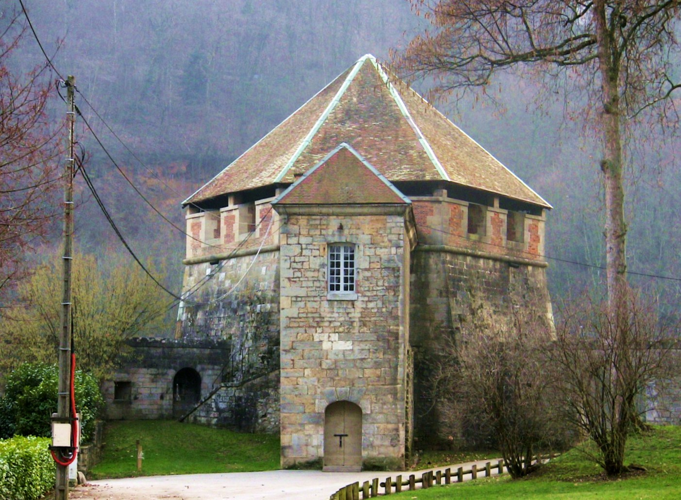 Chamars tower, in Besançon (Doubs, France)